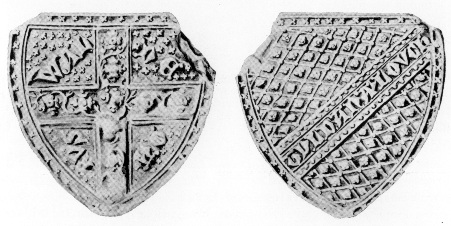 Court seal (rettertingssegl) of Danish King Valdemar Atterdag. This seal is known from documents dating 1356-1365.